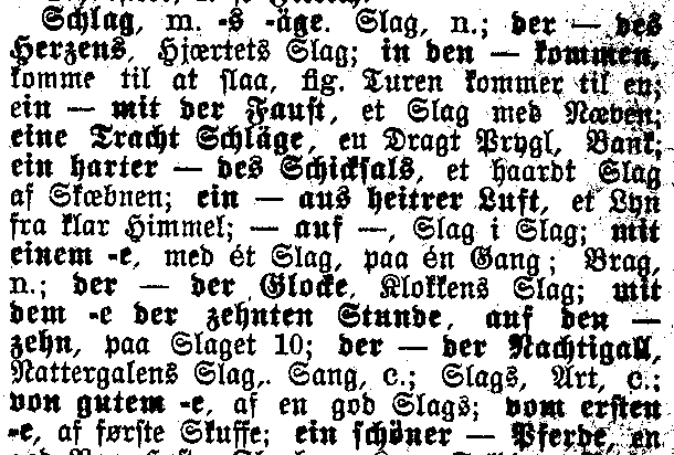 Gothic script in a German-Danish-Norwegian dictionary by J. Kaper from 1885. Notice the two different uses of s in German and Danish